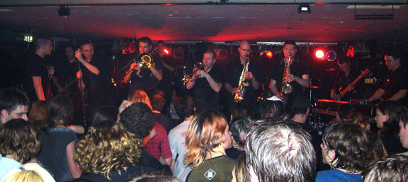 The Busters Karlsruhe 2006